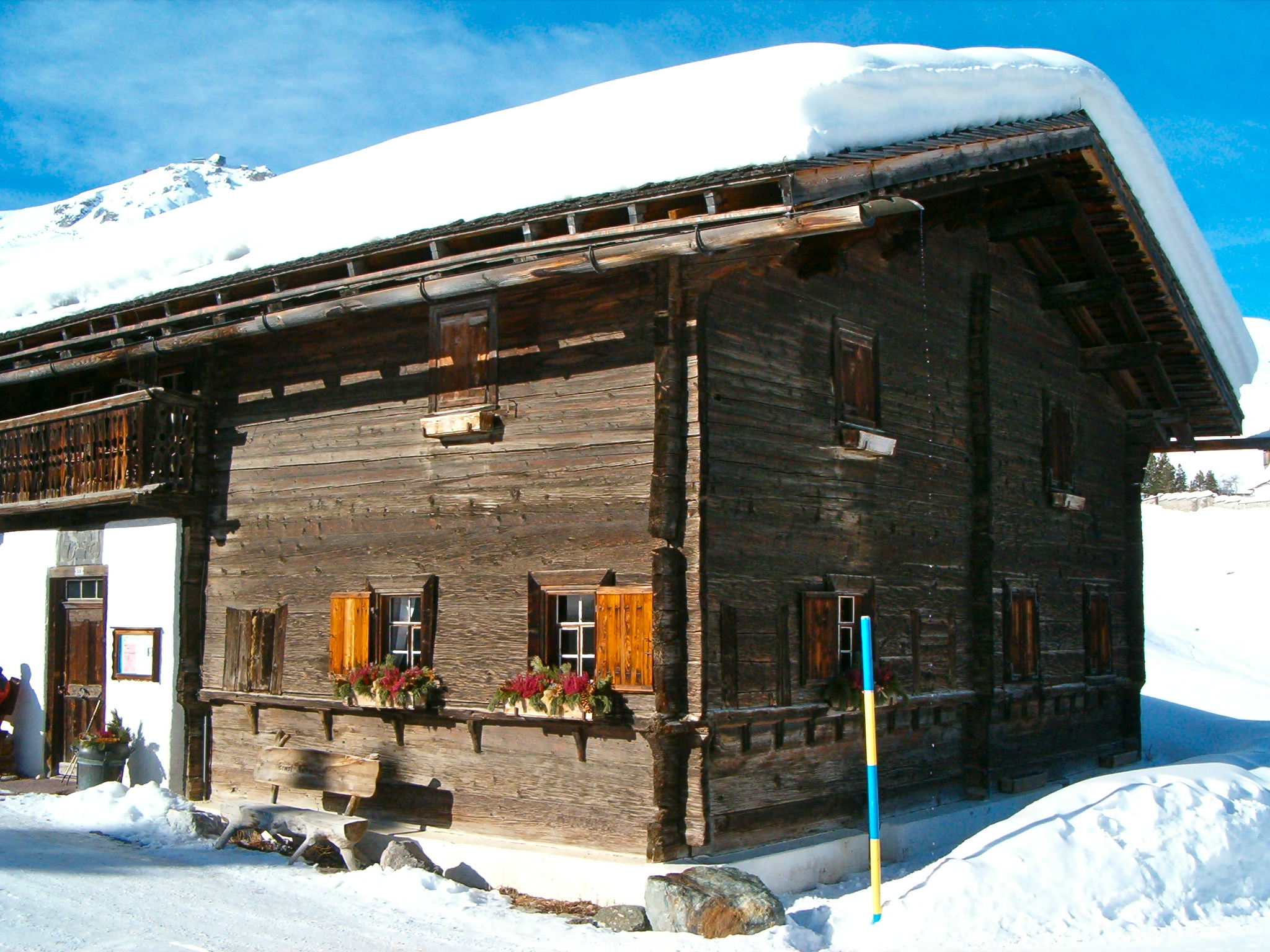 The Local Museum at Arosa, Switzerland